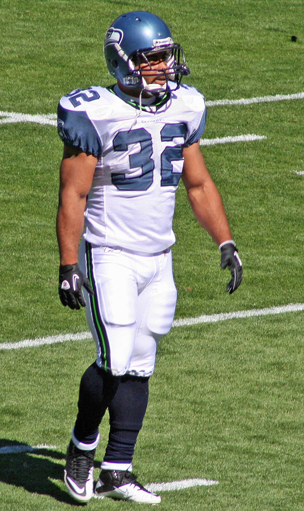 Quinton Ganther, a player on the Seattle Seahawks American football team.